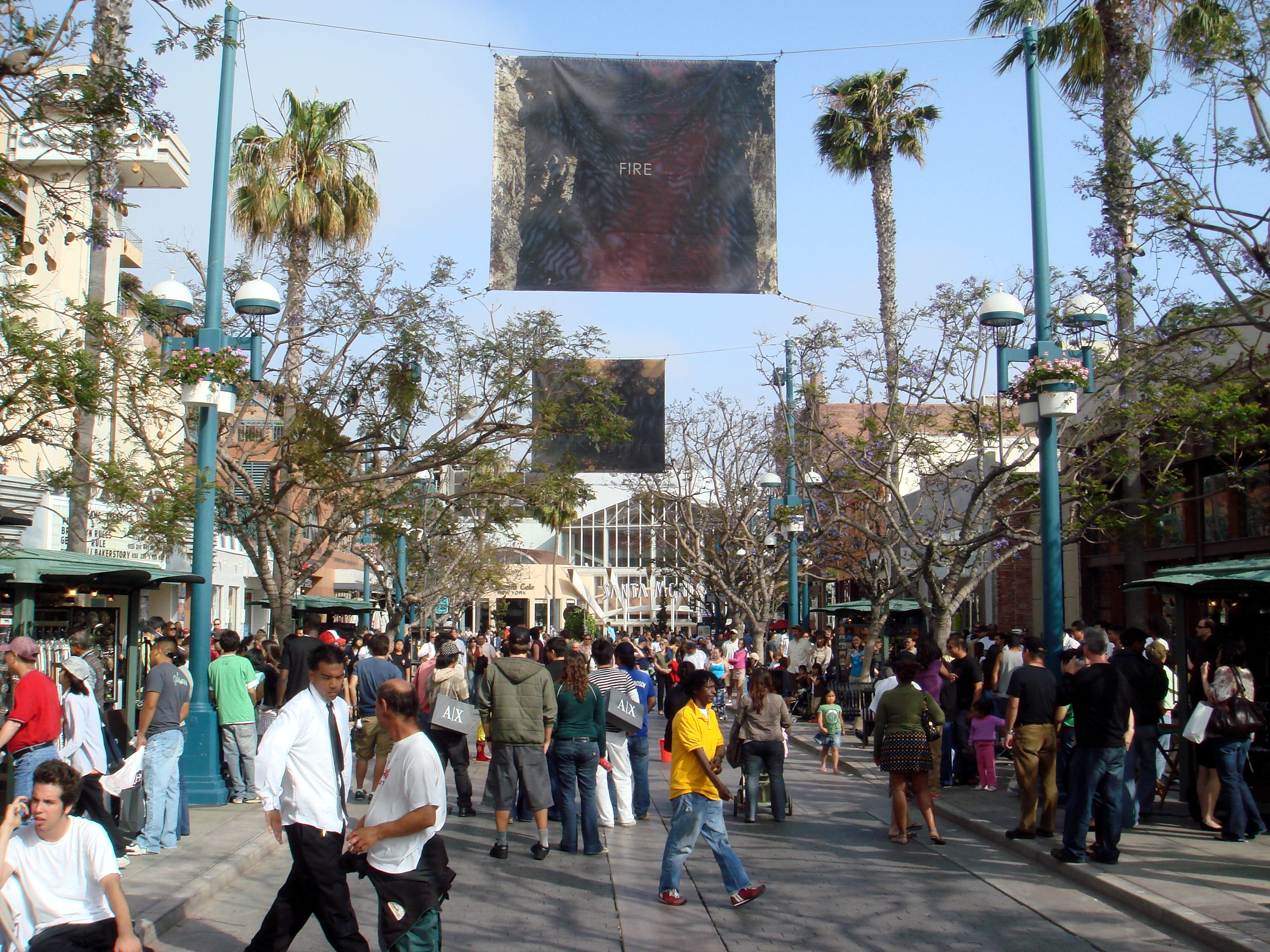 A busy day on Third Street Promenade in Santa Monica, California; the south end is the entrance to Frank Gehry's Santa Monica Place.